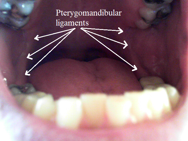 A human mouth, viewed from the front. The pterygomandibular ligaments are marked with white arrows. Note that the lower wisdom teeth have been removed, changing the posture of the pterygomandibular ligaments and other parts, like the buccinators and superior pharyngeal constrictor muscles.